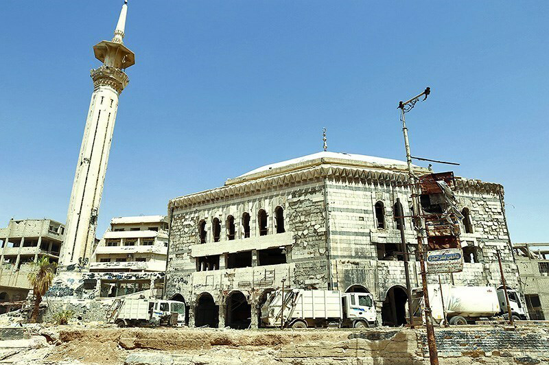 On Sunday, February 25, 2018, the Syrian Arab Army launched a massive campaign to liberate the eastern plutonium on the outskirts of Damascus, and eventually on April 25th, April 25, April 14, 2018, a proclamation of freedom and full cleansing of insurgents was announced.